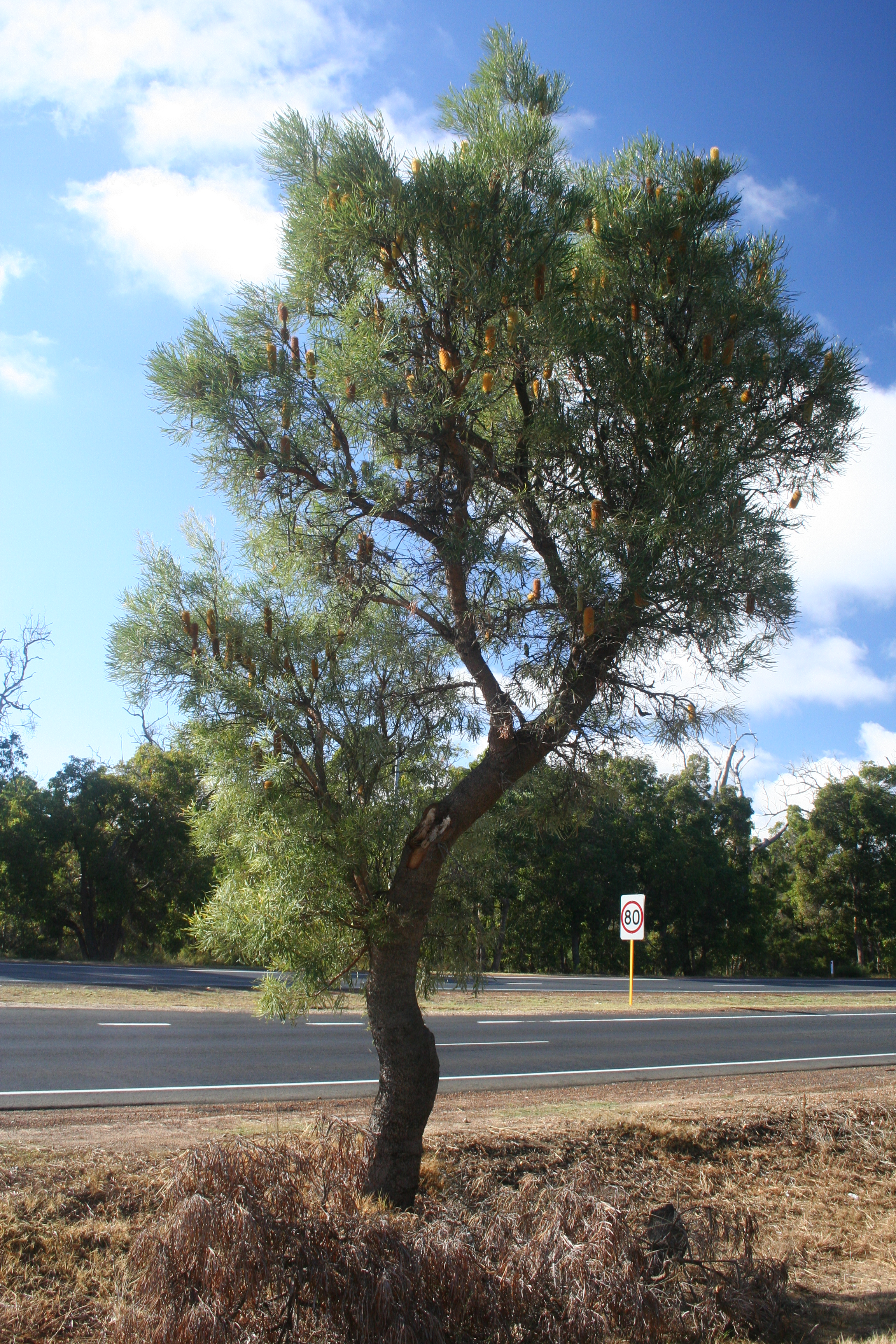 Banksia littoralis, roadside southwest of Bunbury